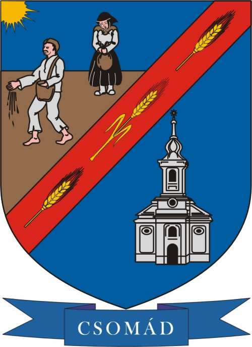 Coat of arms of Csomád, Hungary